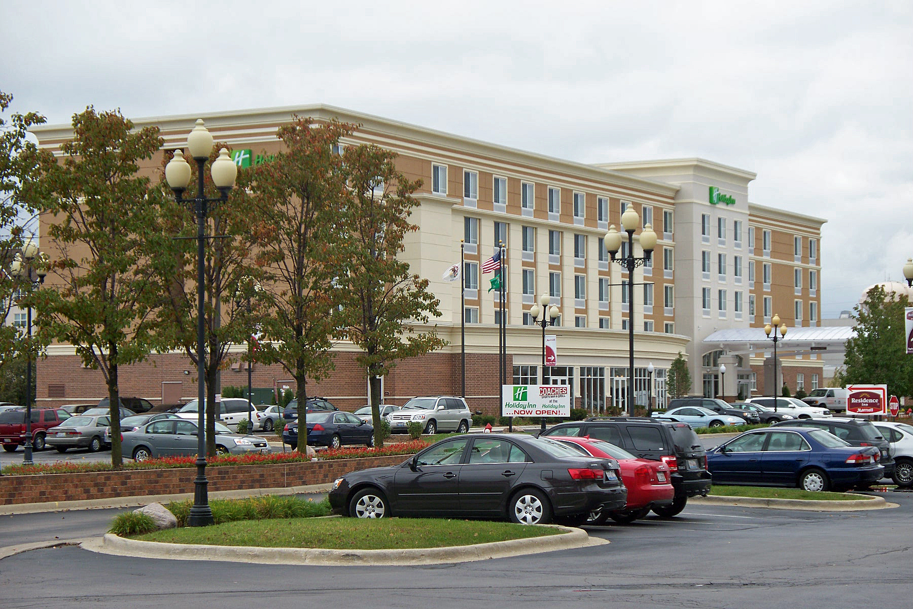 Brand New Holiday Inn near Chicago's Midway Airport